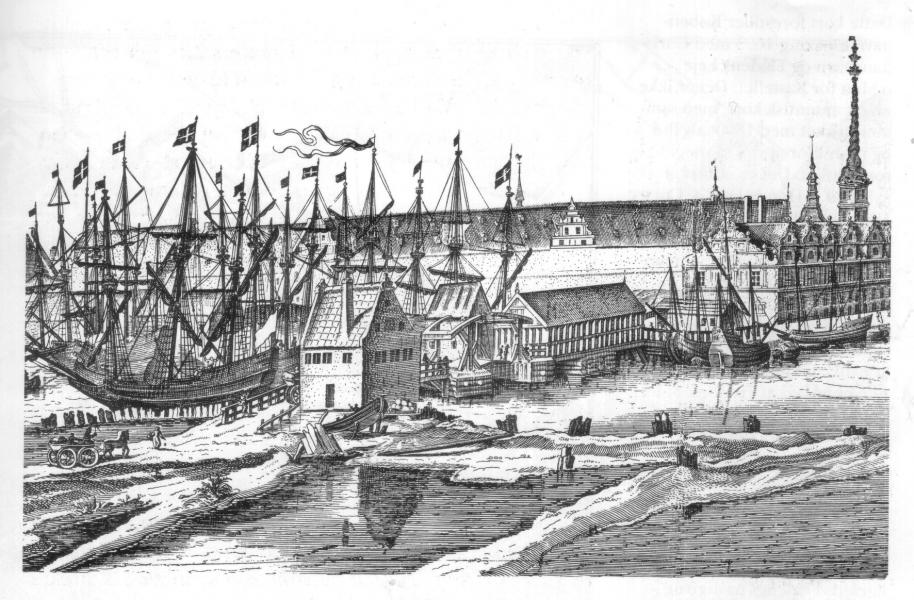 Detail from larger picture showing the first Knippelsbro in Copenhagen, Denmark. It probably dates from c. 1650 but is probably based on a picture from c. 1620.